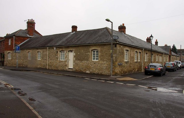 John Newman's College, College Lane, Littlemore, Oxfordshire